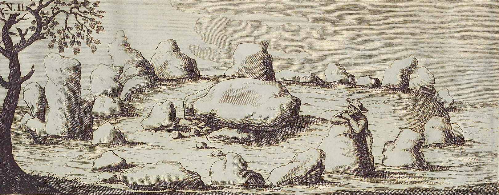 Now destroyed Dolmen at Ballerstedt, depicted in Johann Christoph Bekmann, Bernhard Ludwig Bekmann: Historische Beschreibung der Chur und Mark Brandenburg nach ihrem Ursprung, Einwohnern, Natürlichen Beschaffenheit, Gewässer, Landschaften, Stäten, Geistlichen Stiftern etc. [...]. Vol. 1, Berlin 1751